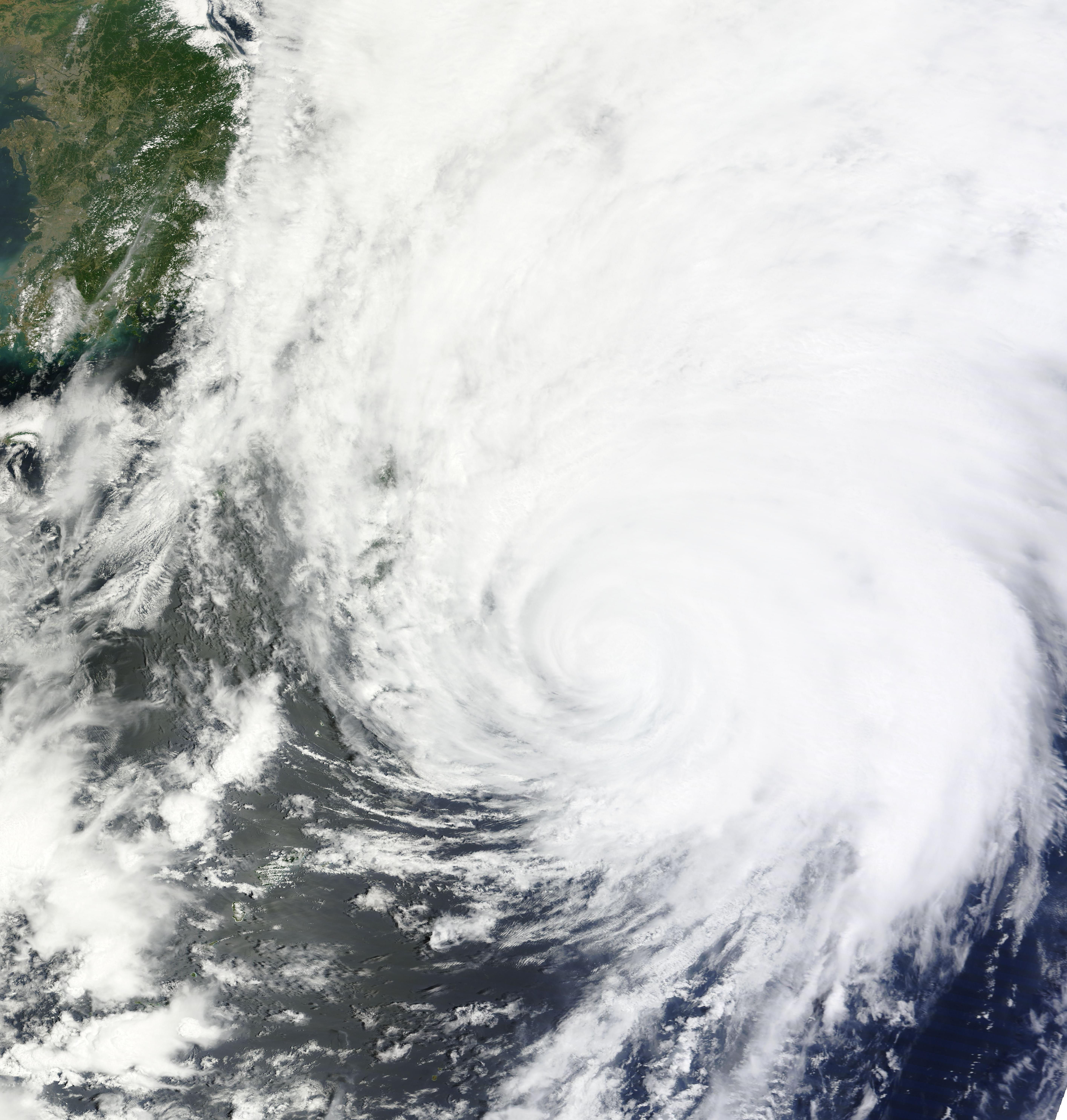 Guchol as a Category one typhoon nearing Landfall over Japan on June 19, 2012